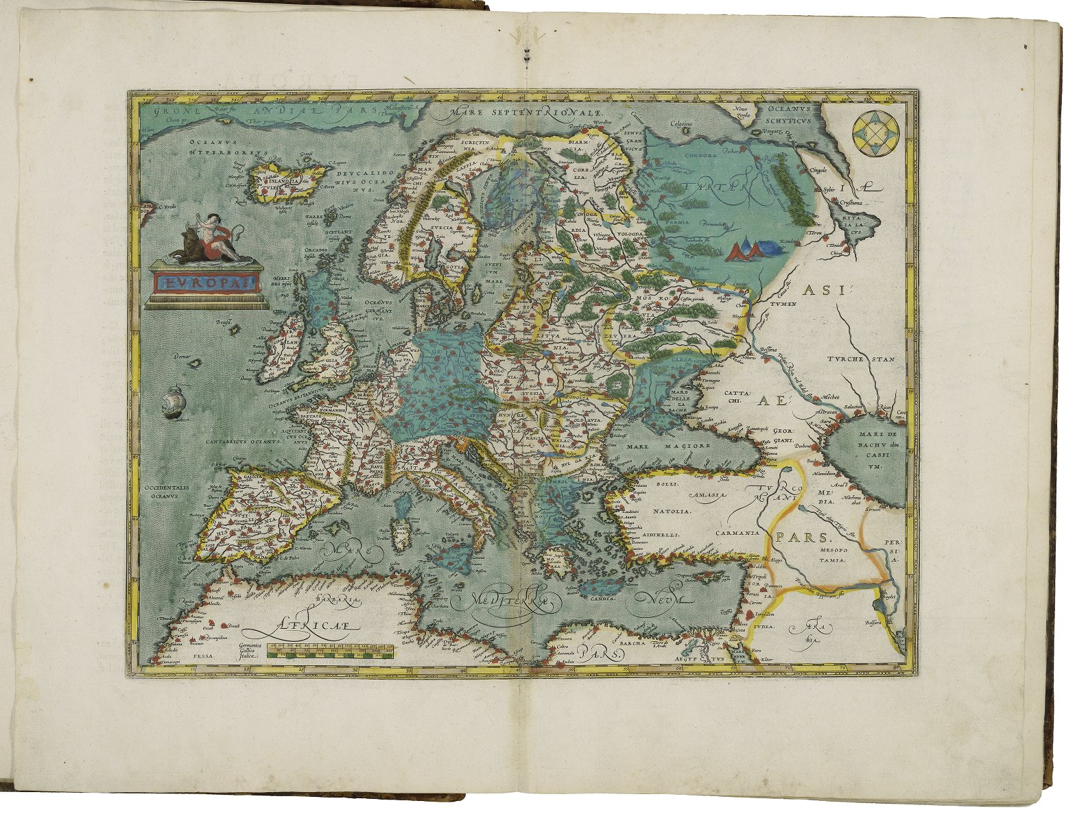 Map of Europe by Abraham Ortelius. Theatrum Orbis Terrarum. London, 1606 (i.e. 1608?). Plate 2.